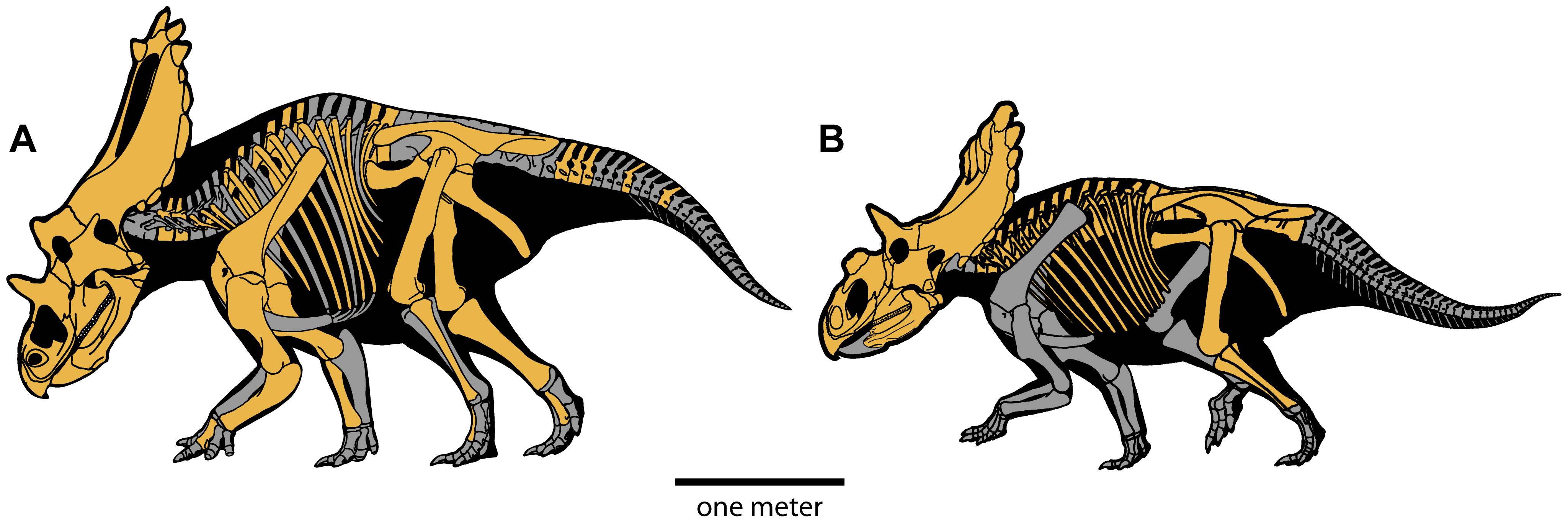 Skeletal elements recovered for Utahceratops gettyi and Kosmoceratops richardsoni.